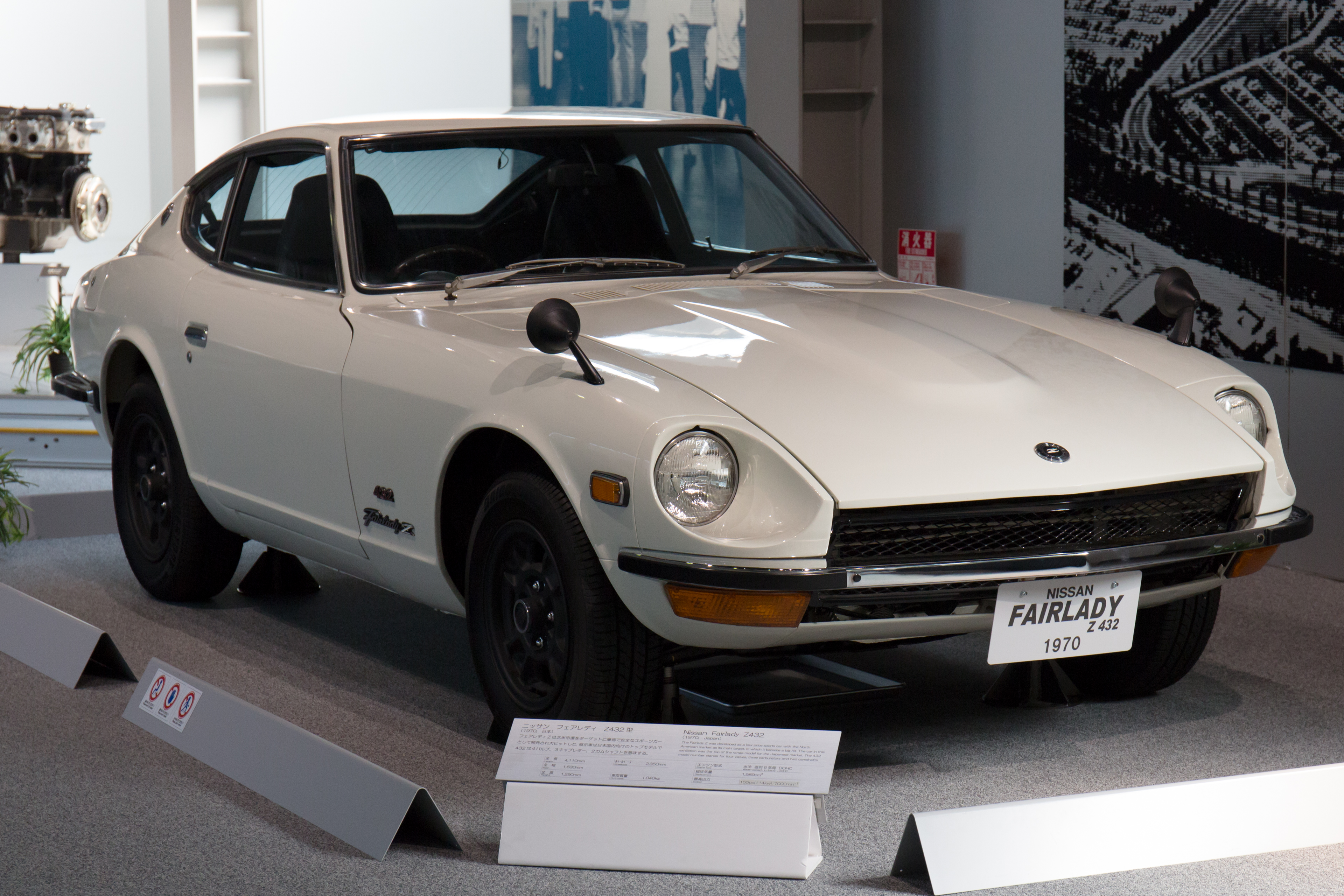 1970 Nissan Fairlady Z 432 *the "432" stands for 4 valves, 3 caburetors, and 2 camshafts